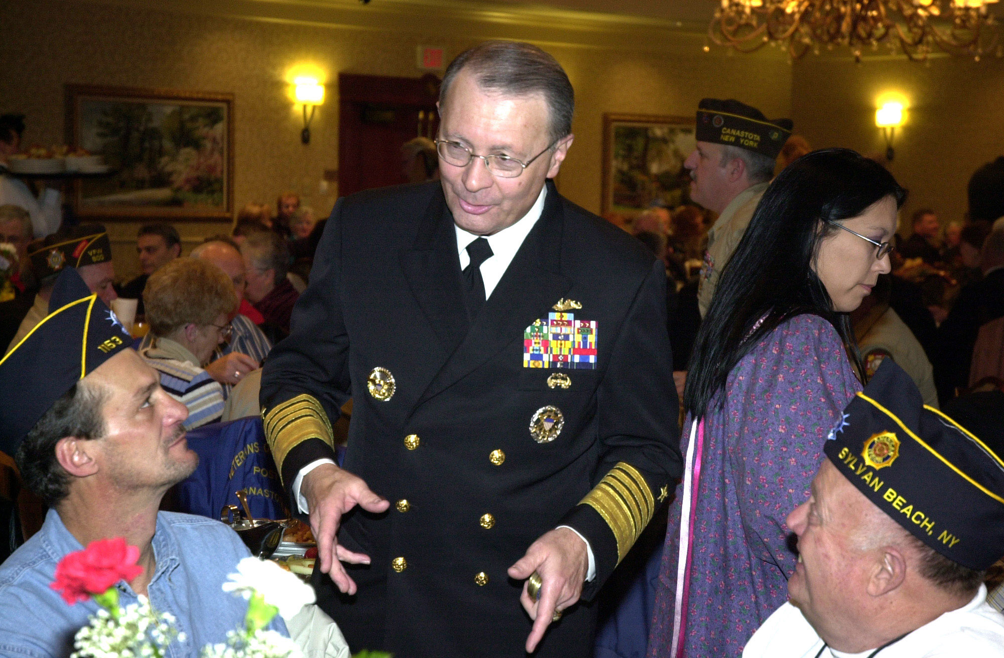 Verona, N.Y., (Nov. 4, 2006) - Joint Chiefs of Staff Vice Chairman, Navy Adm. Edmund Giambastiani speaks with attendees of the Oneida Indian Nation veterans recognition ceremony in Verona, N.Y. Adm. Giambastiani was the guest speaker for the ceremony. U.S. Navy photo by Capt. Hal Pittman (RELEASED)